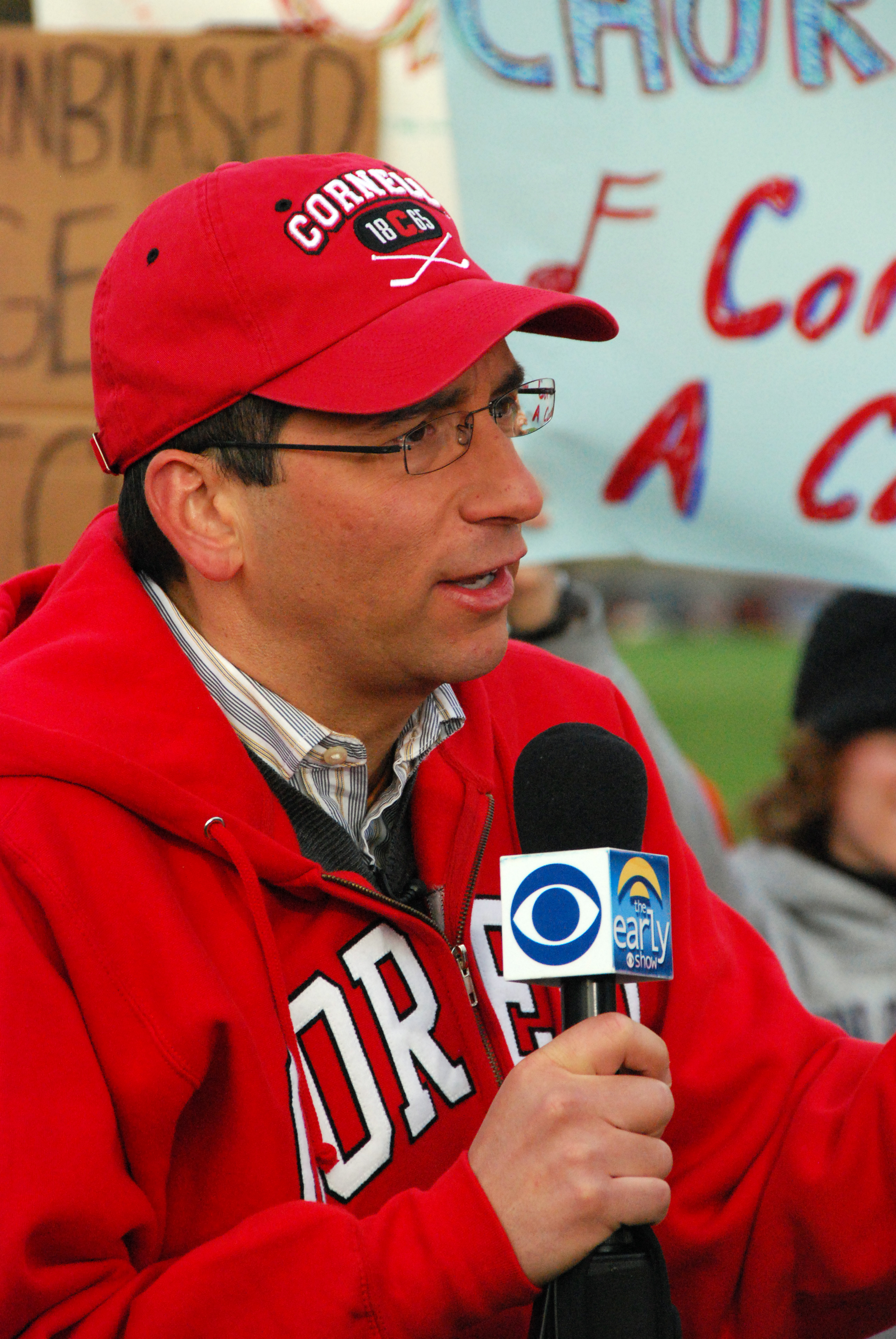 Dave Price, CBS reporter and Cornell ILR alumnus, at Fall 2008 ILR Orientation